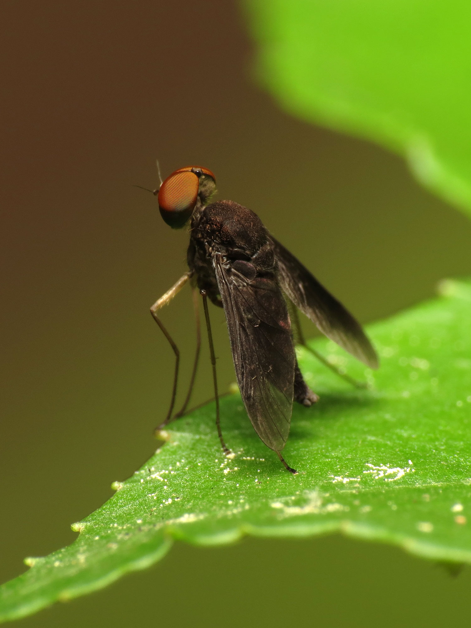 Chrysopilus quadratus. Huntley Meadows, Fairfax County, Virginia, USA. 27 May 2012.